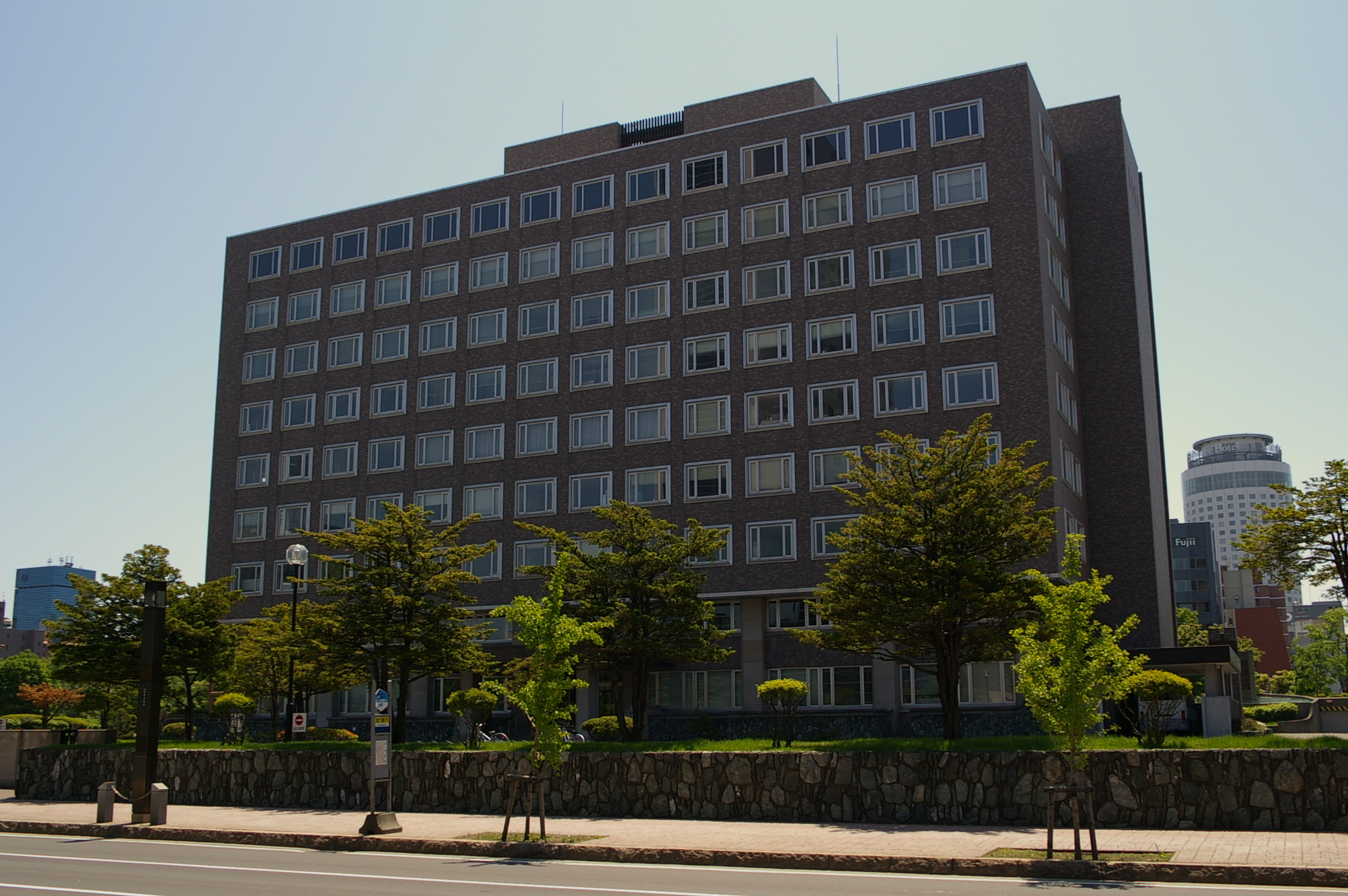 Photograph of Sapporo High and District Court in Chuo-ku, Sapporo, Hokkaido, Japan.